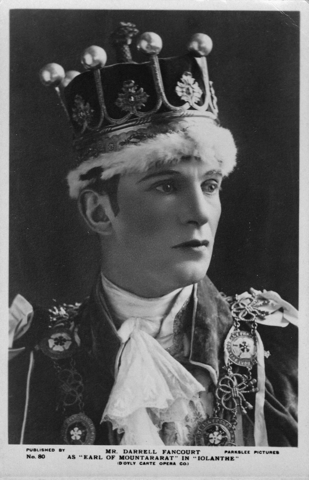 A young Darrell Fancourt (1886-1953) as Lord Mountararat in Iolanthe.